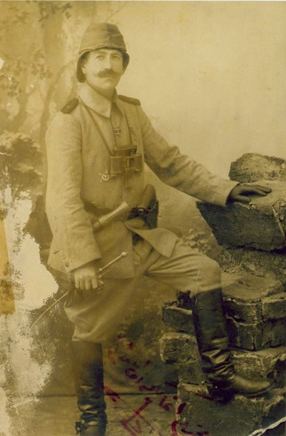 Reşat Bey after his returning from the Muş Front